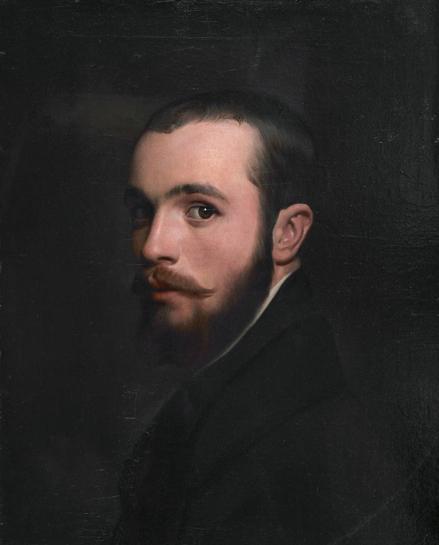 Alfred Boisseau oil on canvas mounted on plasterboard 55 x 45 cm 1842